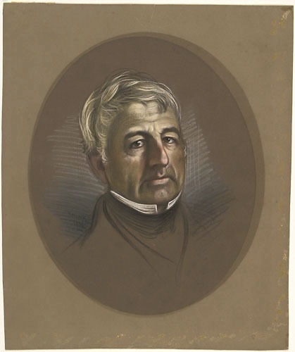 Francois Xavier Malhiot by Frederick William Lock (artist)